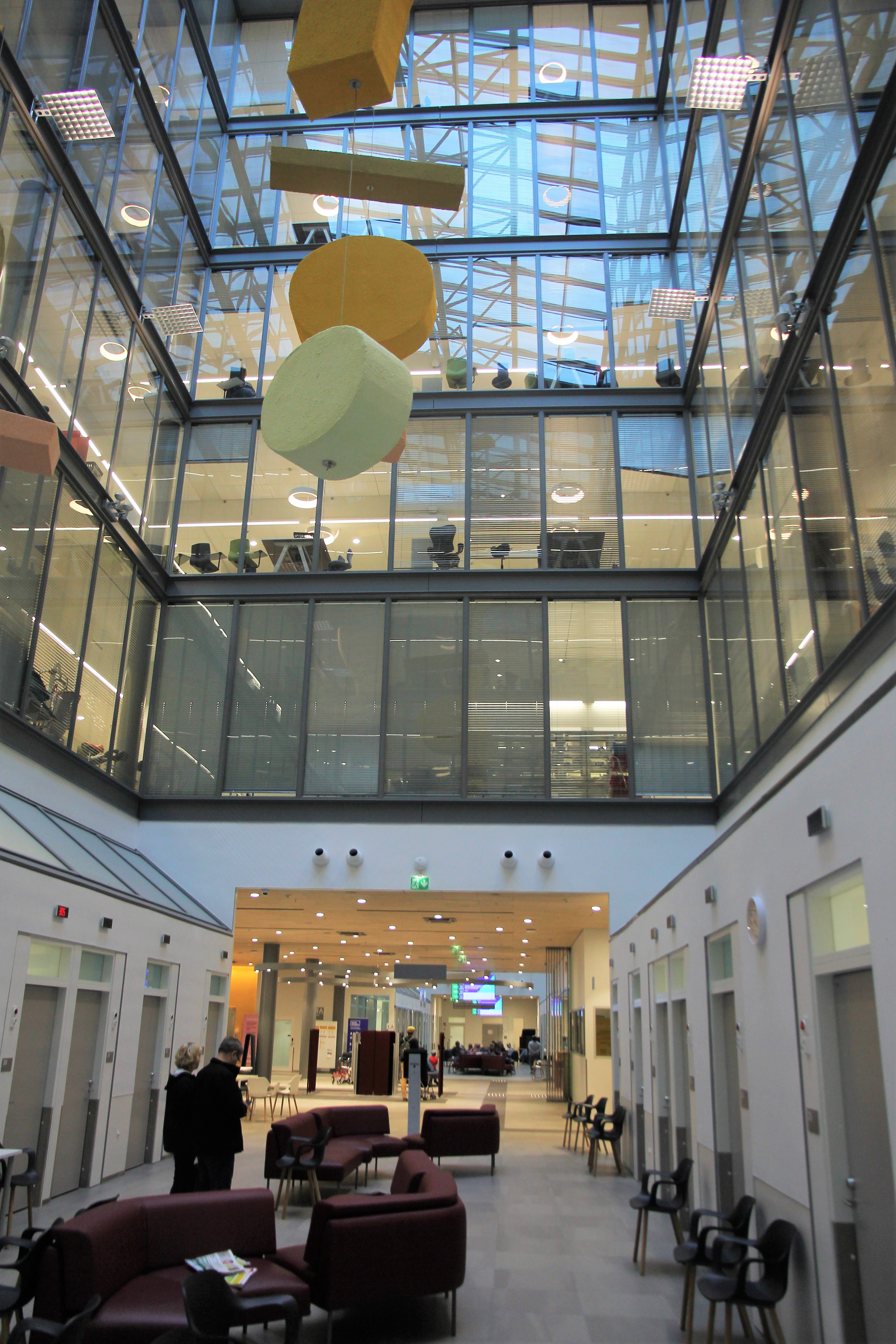 Lobby and inhouse view of Kalasatama Health and Well-being Centre in Kalasatama sub-area of Sörnäinen, Helsinki, Finland. This health centre started its operations on February 5th, 2018 before which three smaller health stations were closed. Address: Työpajankatu 14 A, 00580 Helsinki. Upper part of the photo shows lower part of a large mobile (2018; there are two mobiles, one in each lobby) created by artist Jenni Rope (born 1977, Lahti, Finland).